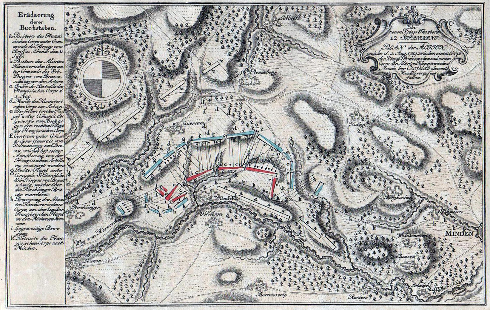 Map: Action bey Coofeldt